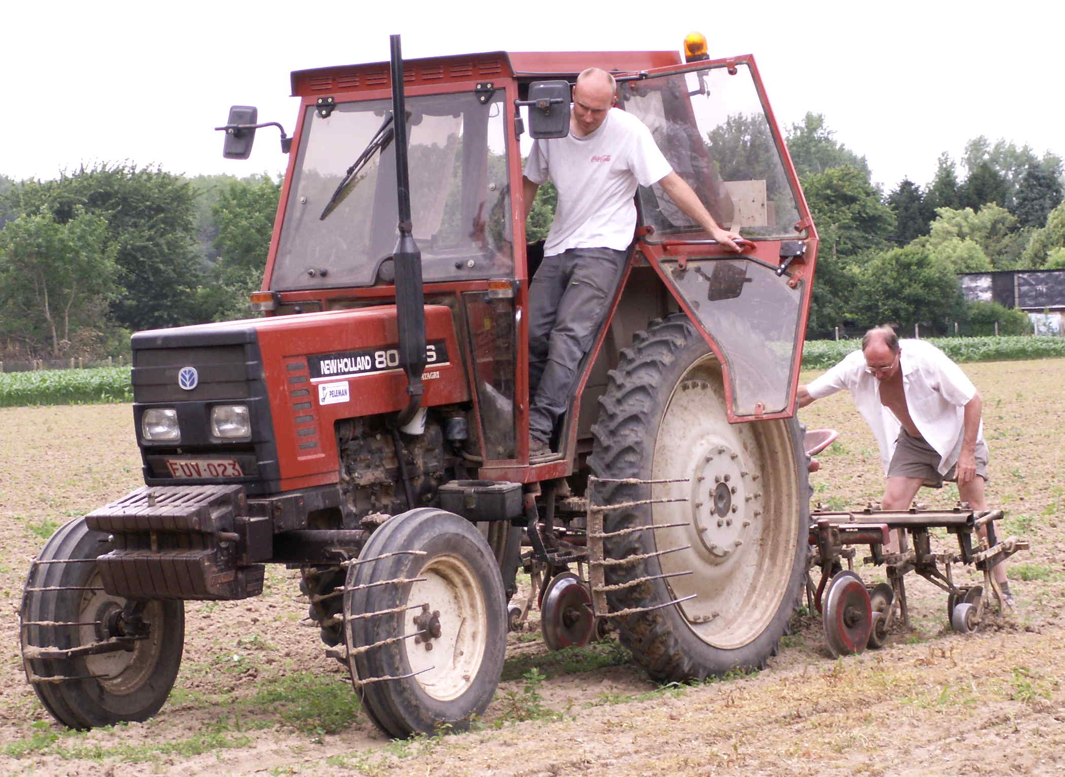 A picture of a (somewhat older) New Holland tractor with a mounted rototiller. This mechanical weeding takes allot of work out of the hands of the grower.